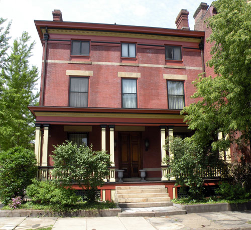 Picture of the Mary Roberts Rinehart house located at 954 Beech Avenue in the Allegheny West neighborhood of Pittsburgh, Pennsylvania, on May 1, 2010. The historical marker on the front of the house says the following: "Allegheny West. Home of Mary Roberts Rinehart. Prolific author (1876-1958) of The Circular Staircase - written in this house in 1907 - and one of America's first and most popular writers of mystery stories as well as fiction and biography; the first female American war correspondent (World War I); a pioneer scriptwriter during Hollywood's golden era; and an outspoken, ambitious and independent advocate of a lifestyle of opportunity for women. Her characterizations of the independent female and her own adventurous life, combining career and family, heralded the emergence of the twentieth century woman. The Allegheny West Historic District." Rinehart lived at this house with her family from 1907 to 1912. [1]